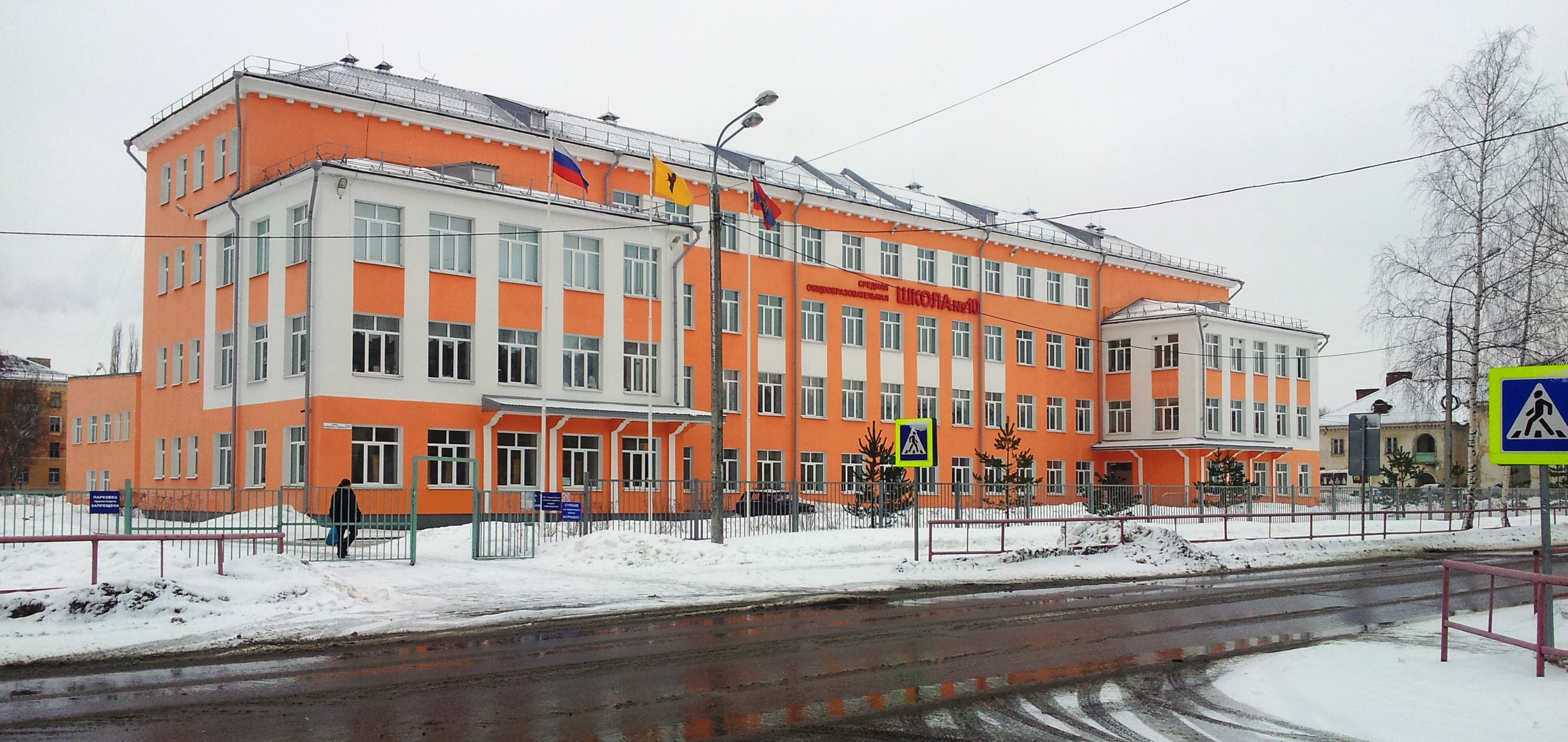 School 10 in Severny microdistrict in Rybinsk, Russia